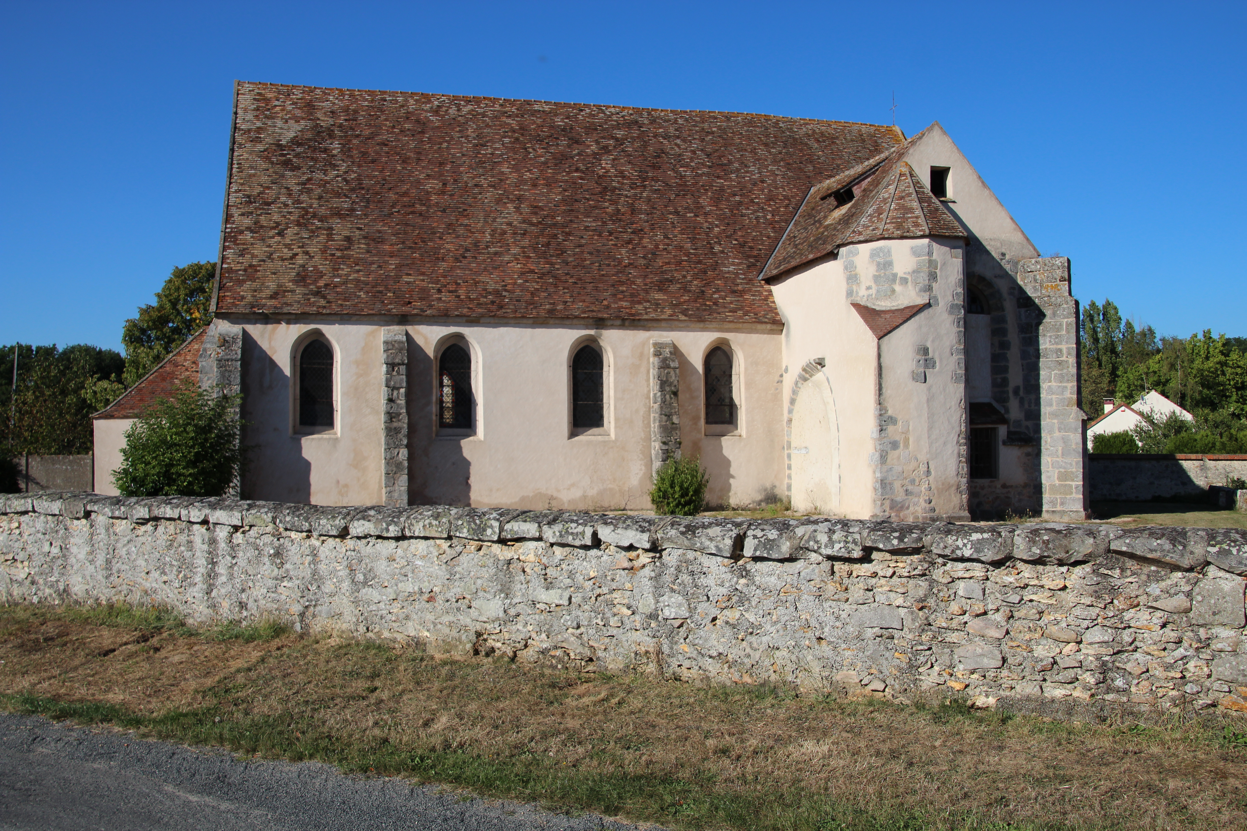 Saint-Rémy church of Mittainville, France.